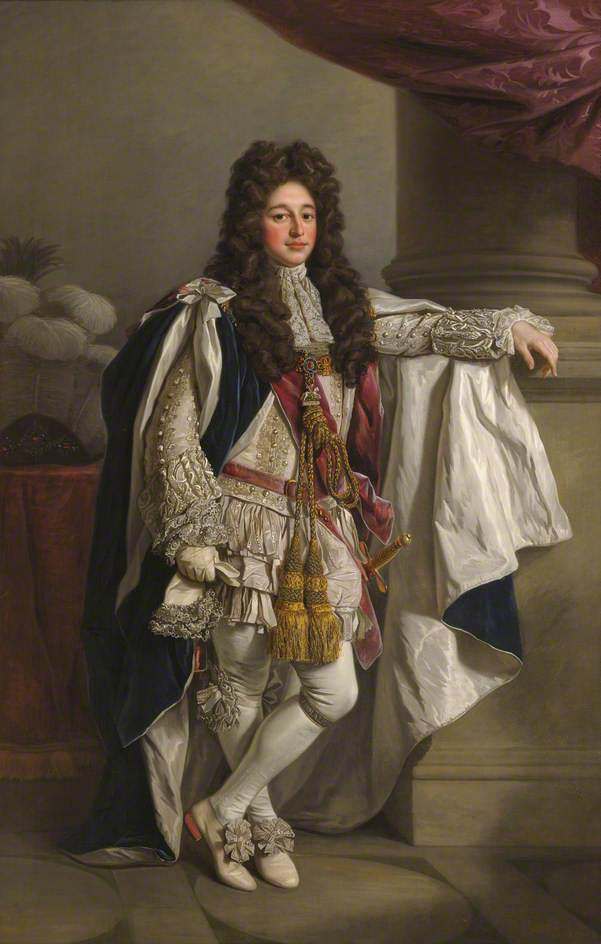 Charles Seymour, 6th Duke of Somerset (1662-1748), known by the epithet "The Proud Duke", portrait by Nathaniel Dance-Holland (1735–1811), (presumably a copy, artist aged 13 at sitter's death), collection of Trinity College Cambridge, donated by Charles, Marquis of Granby, before 1796. He was Chancellor of the University of Cambridge 1689-1748